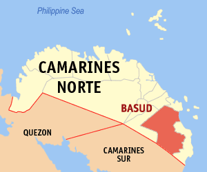 Map of Camarines Norte showing the location of Basud